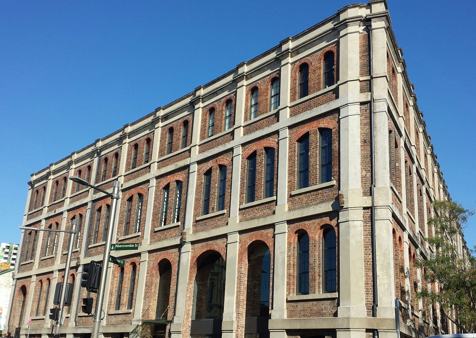 The Federation warehouse style McMurtrie Kellerman and Company Building built in 1883 Darlington New South Wales